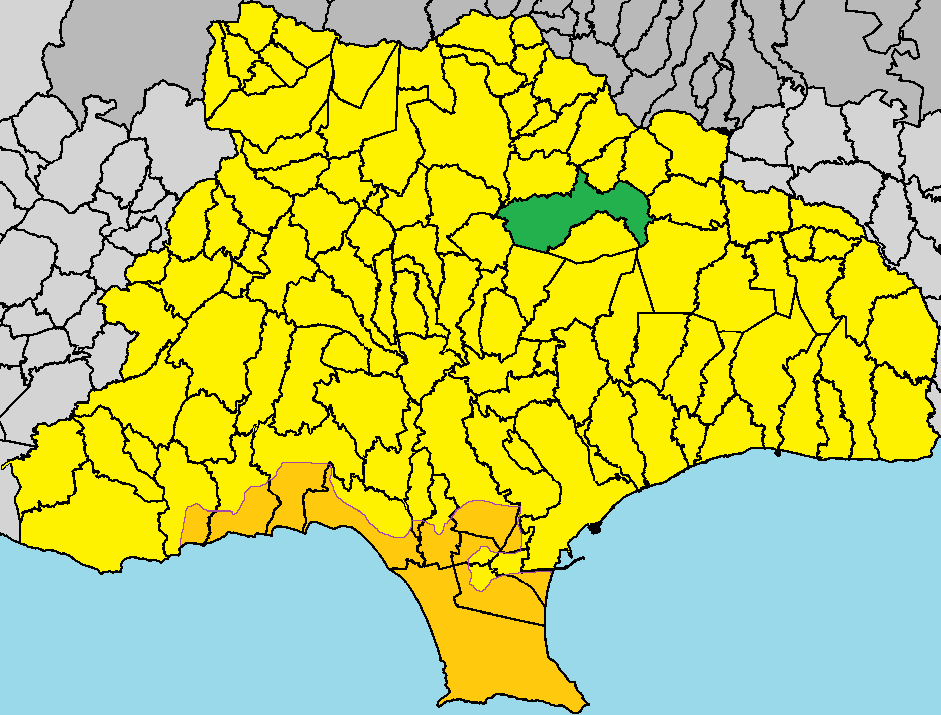 Kalo Chorio, Limassol in Limassol District.